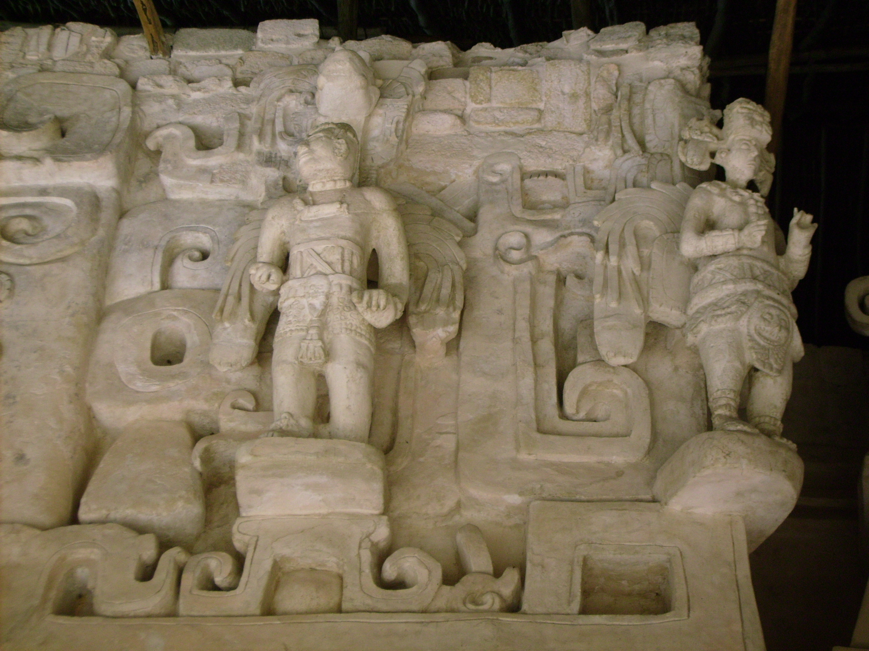 Winged Mayan Warriors, Ek'Balam or Ek Balam, Yucatán, Mexico